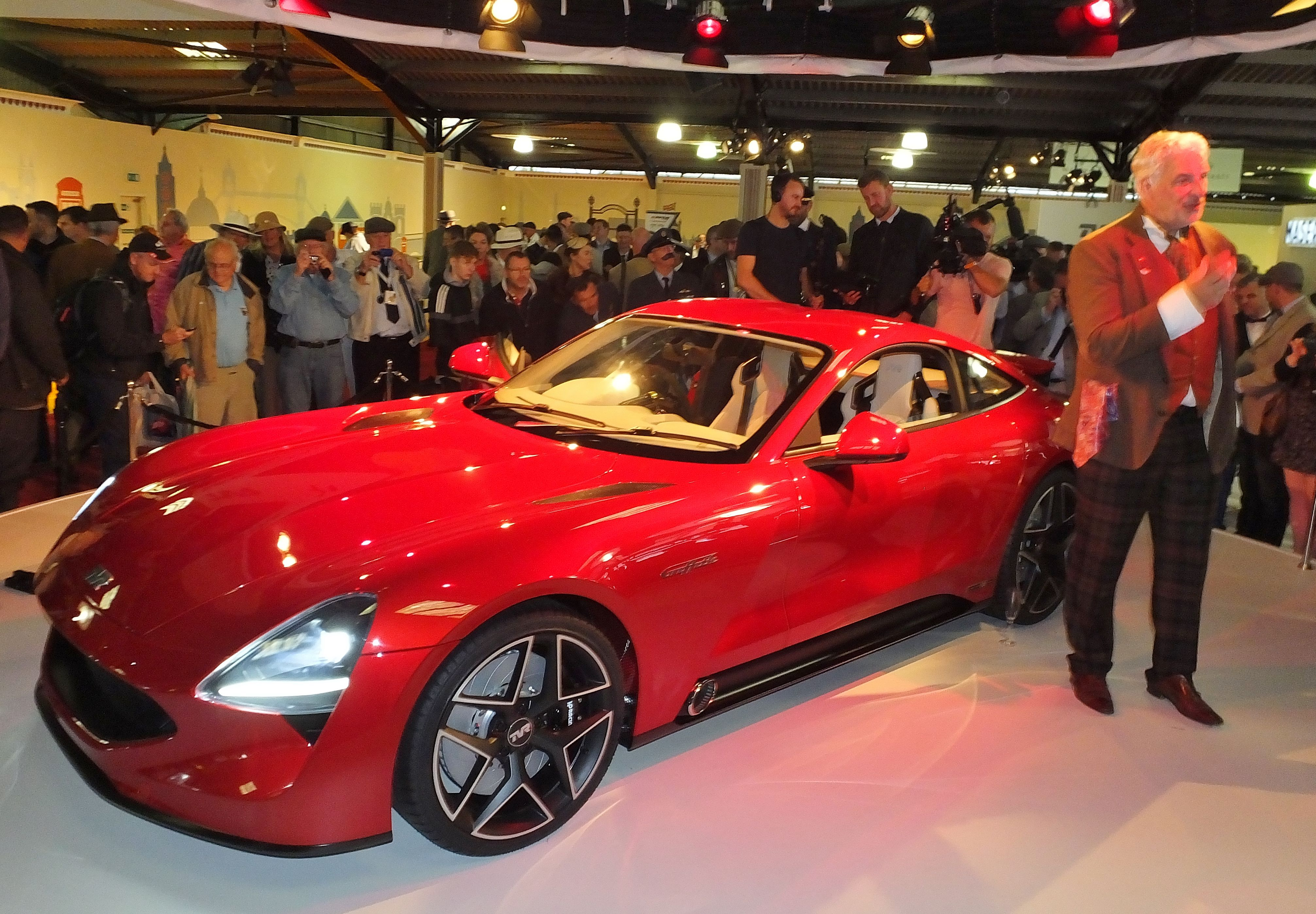 The new TVR Griffith sportscar is unveiled to the world at the Goodwood Revival - Friday 8th September 2017. The Gordon Murray designed car was presented by the Chairman of the new TVR company, Les Edgar, who made his fortune with the video games business Bullfrog.